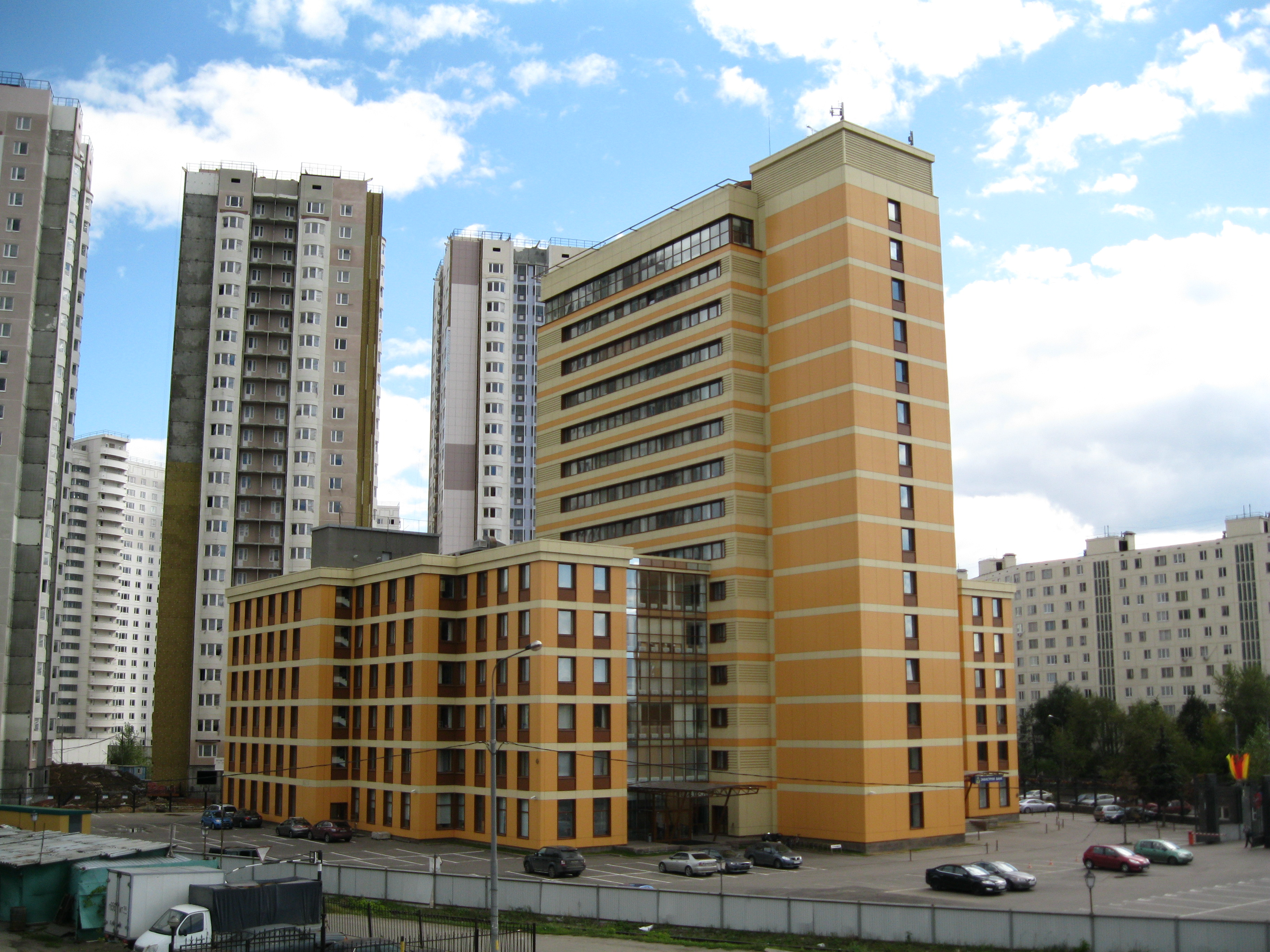 Altesa businesscenter in Moscow